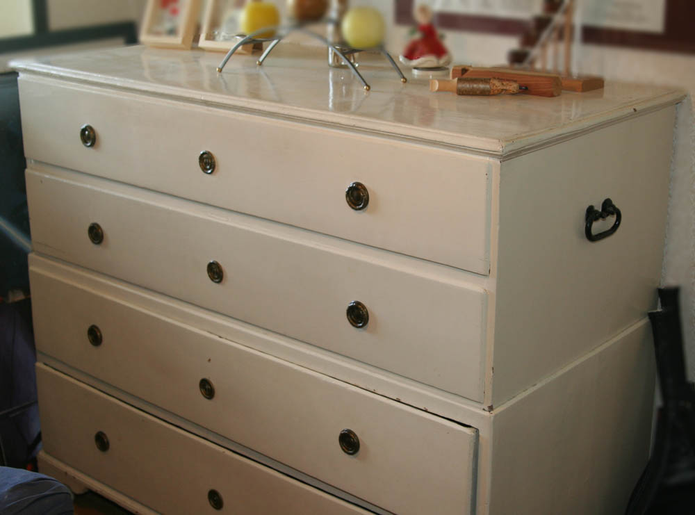 Swedish moving chest